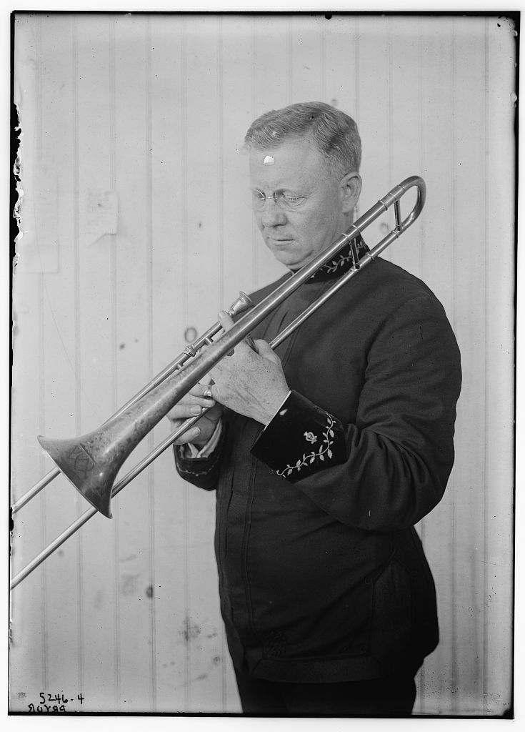 Arthur Willard Pryor with his trombone in 1920